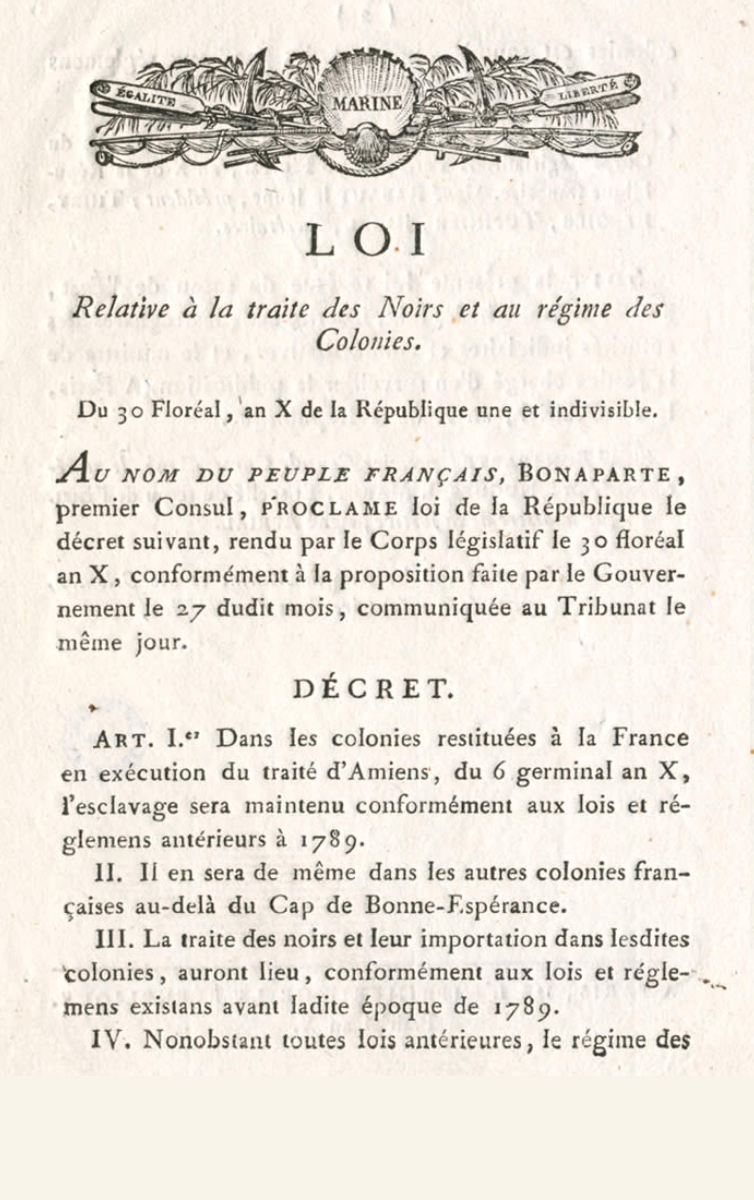 Law on the Slave Trade and the Regime of the Colonies, 1802